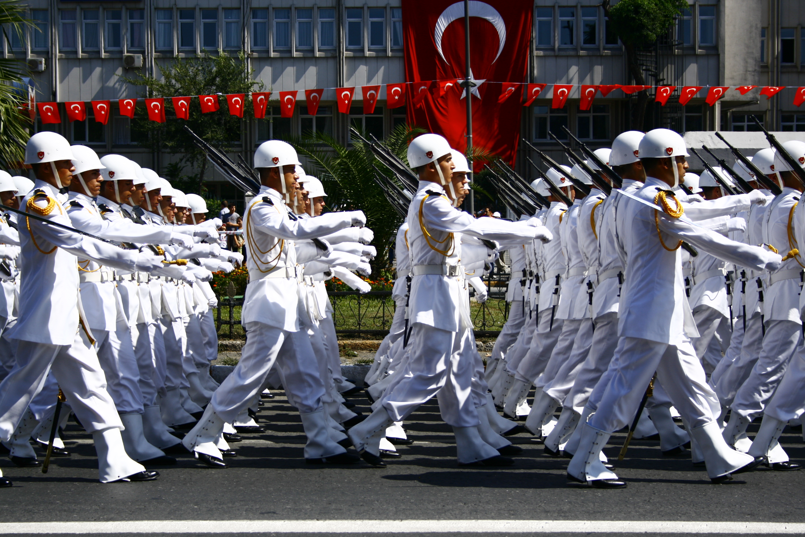 Parade zum Tag des Sieges 30. August 2007 / Parade on the Victory Day on August 30 in Turkey